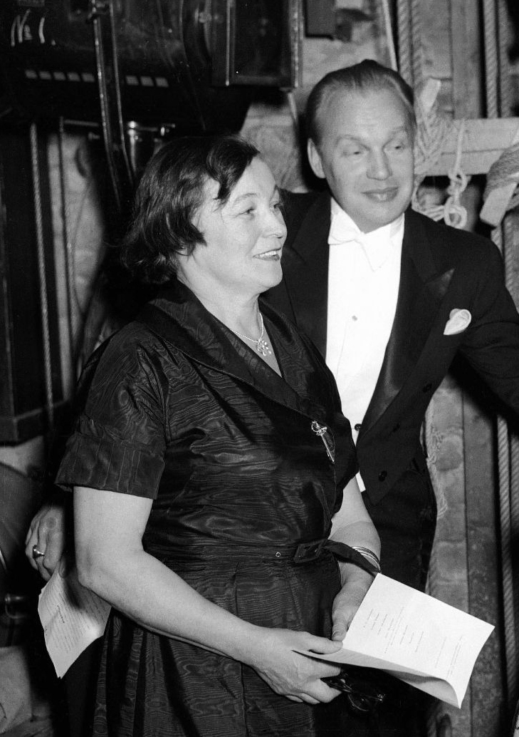 Photograph of the Finnish writer Heikki Marttila alias Arijoutsi (1915–1993) standing possibly with the Finnish writer Veija Marjanen.